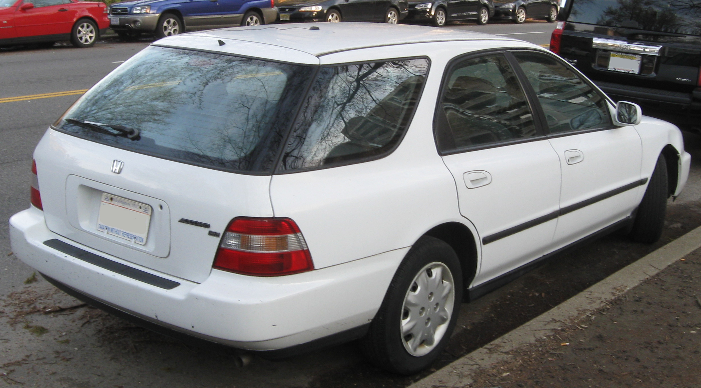 1994-1997 Honda Accord photographed in Washington, D.C., USA.